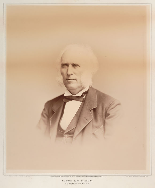 John T. Nixon (1820-1889)